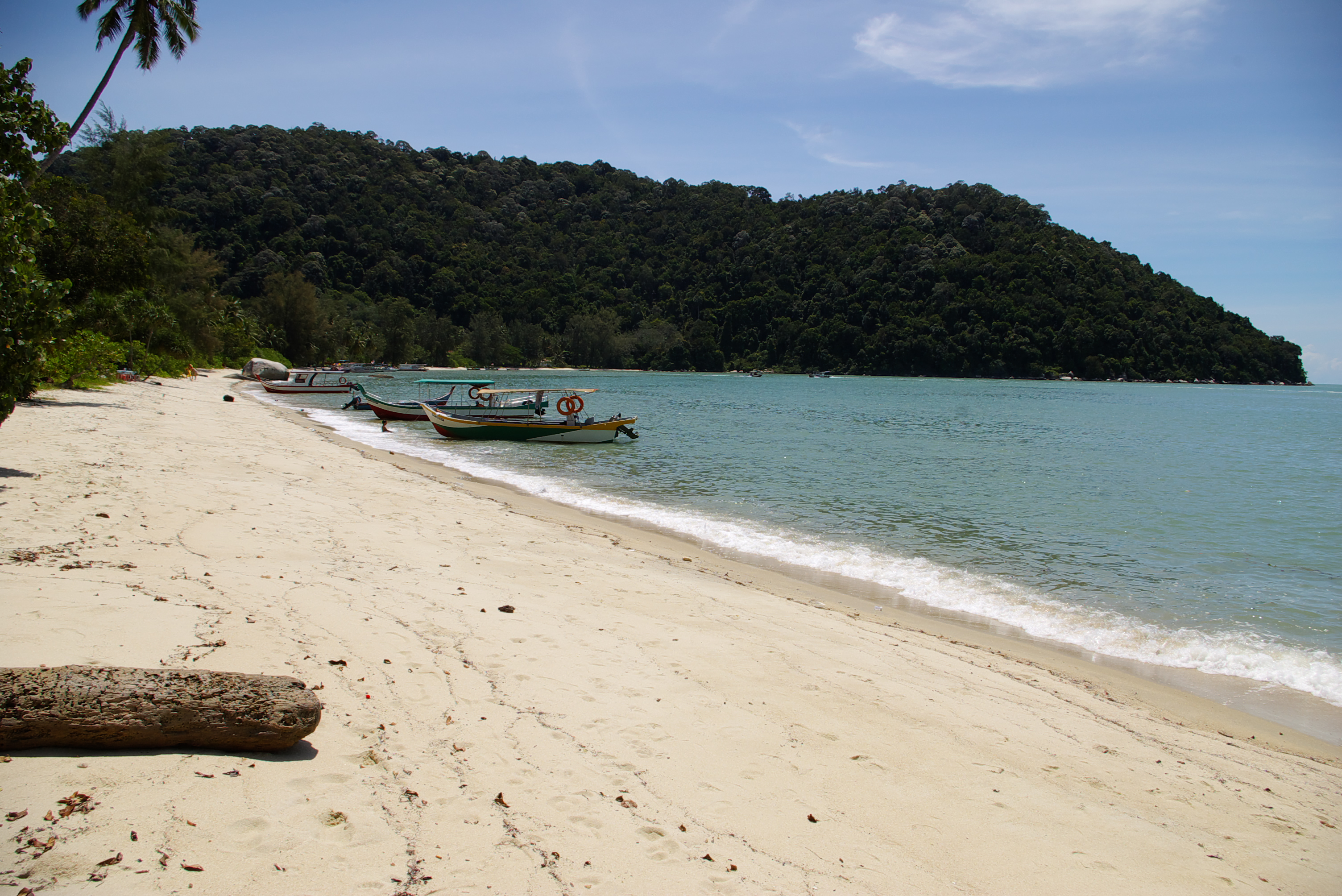 The pristine monkey beach in the north western corner of the island.